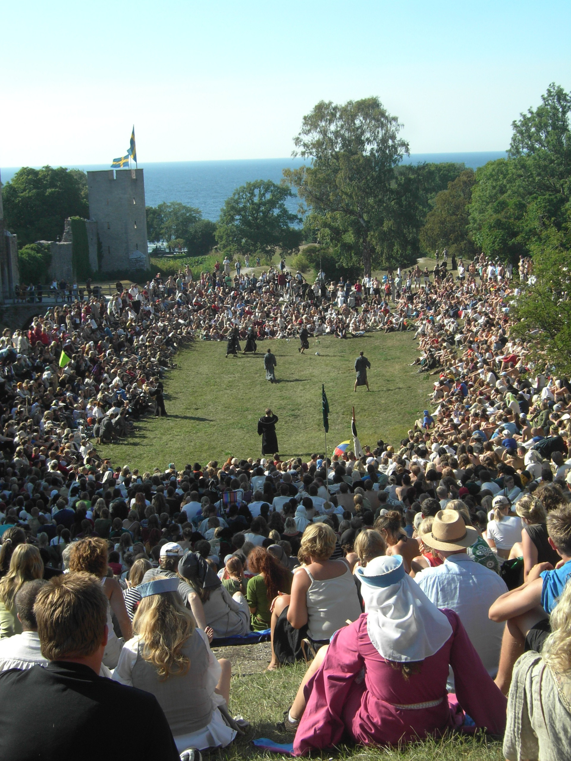 Medieval football match in Visby, Gotland.